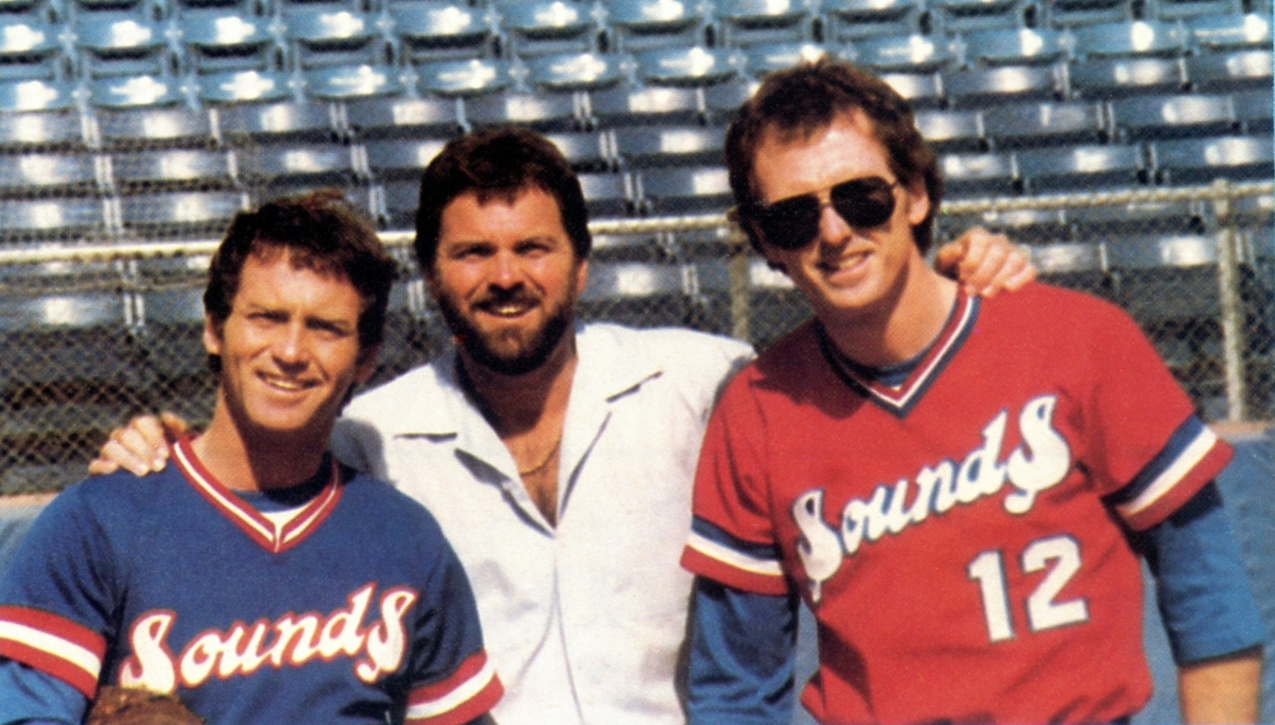 Country musicians the Gatlin Brothers wearing the uniforms of the Nashville Sounds Minor League Baseball team in 1985 (left to right: Larry Gatlin, Steve Gatlin, and Rudy Gatlin)